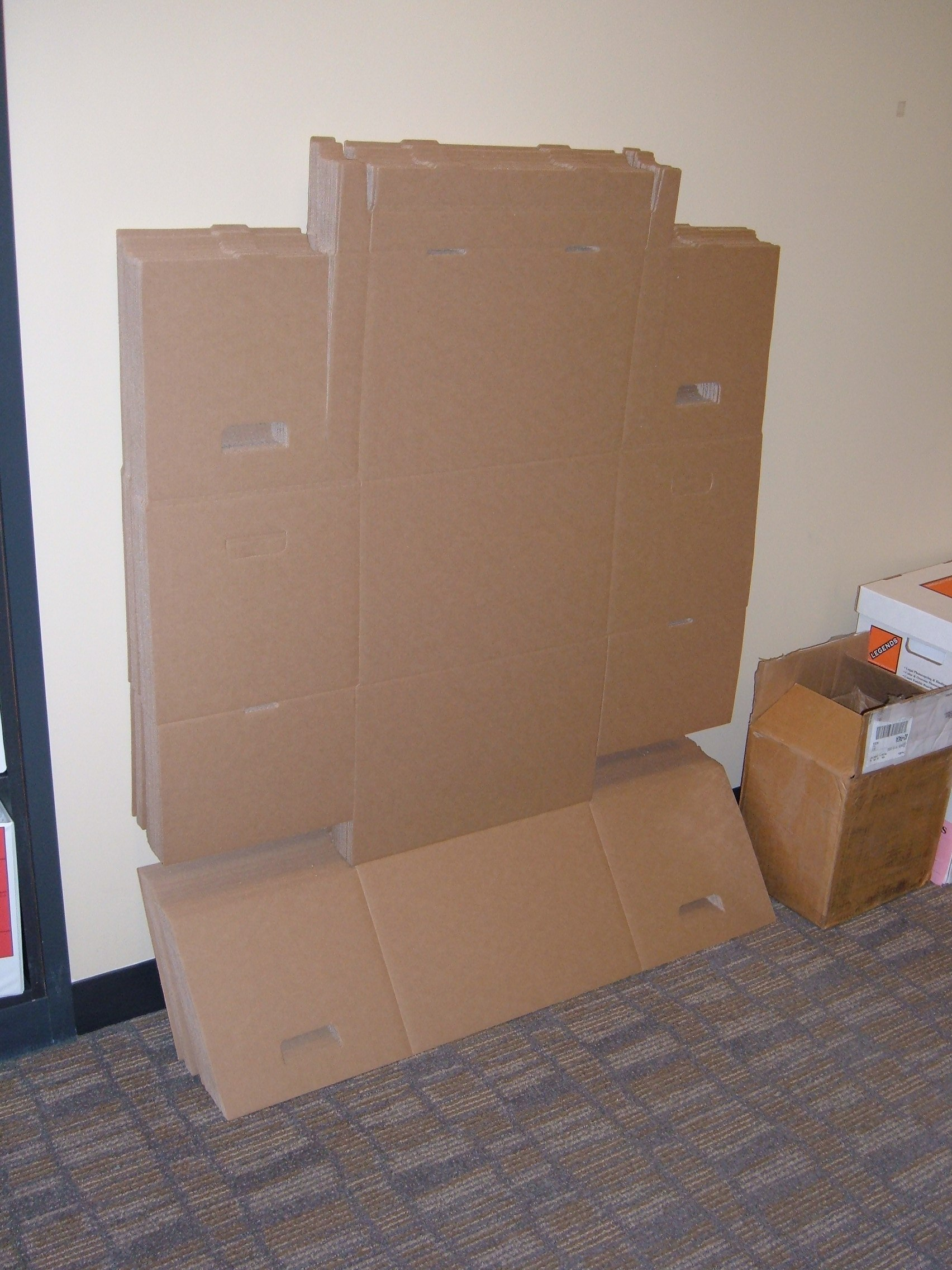 Unassembled large cardboard banker's boxes